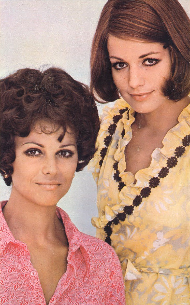 Italian actresses Claudia Cardinale and Catherine Spaak